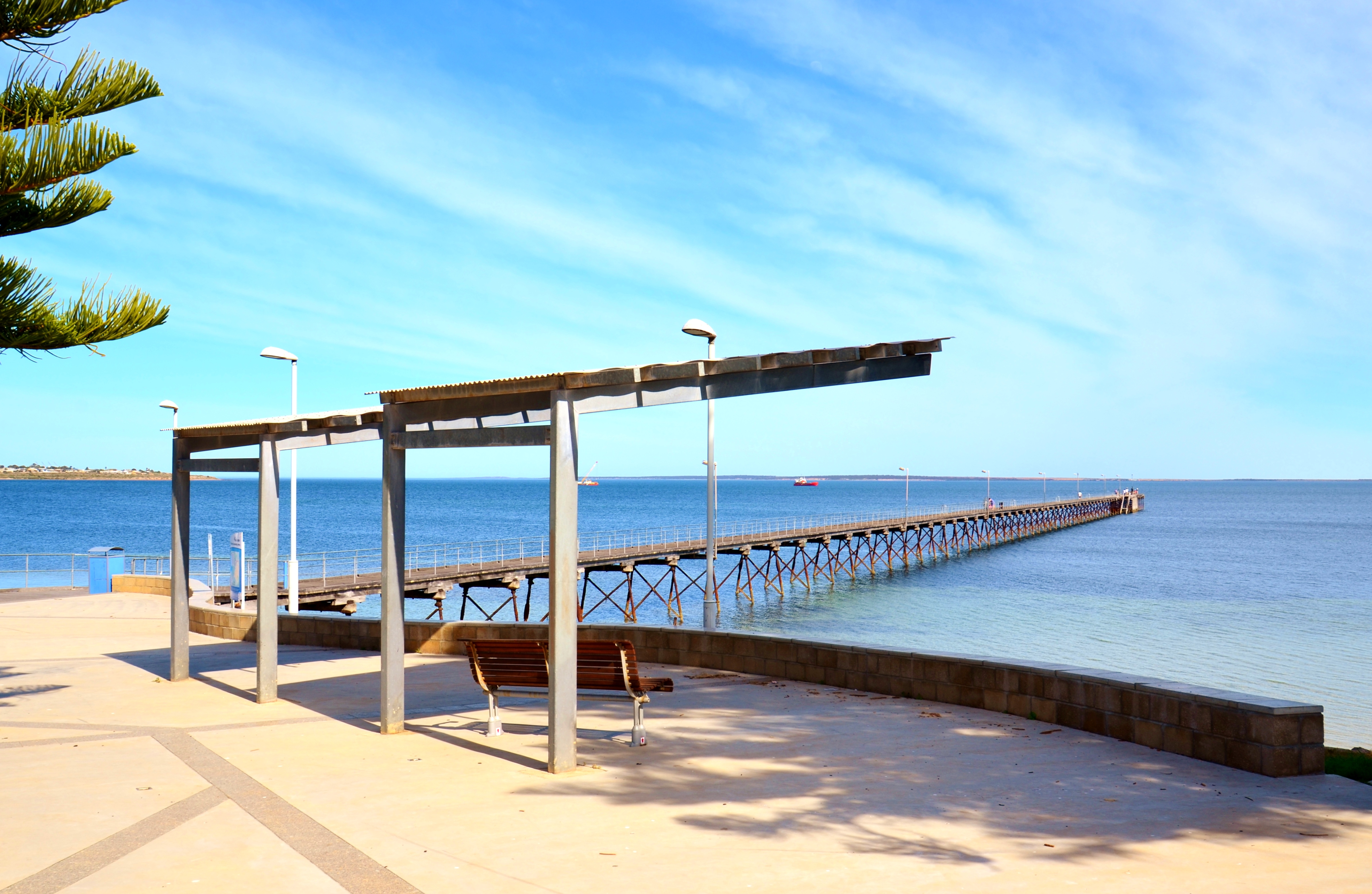 View of the Ceduna Jetty, O'Loughlin Terrace, Ceduna, South Australia